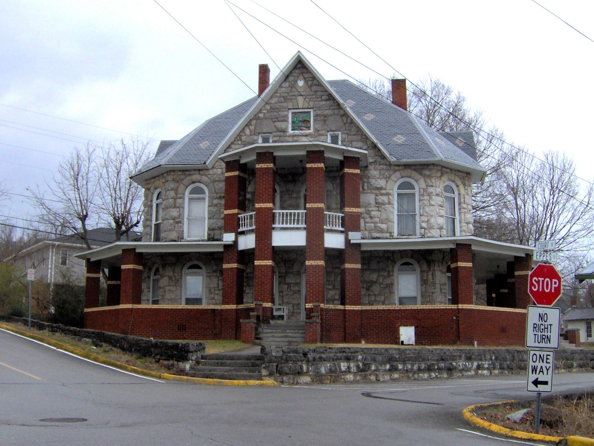 The Stone-Buis house in Tazewell, Tennessee, located in the southeastern United States. The house was built by Dr. Nelson Stone (1866-1933), a Claiborne County dentist.